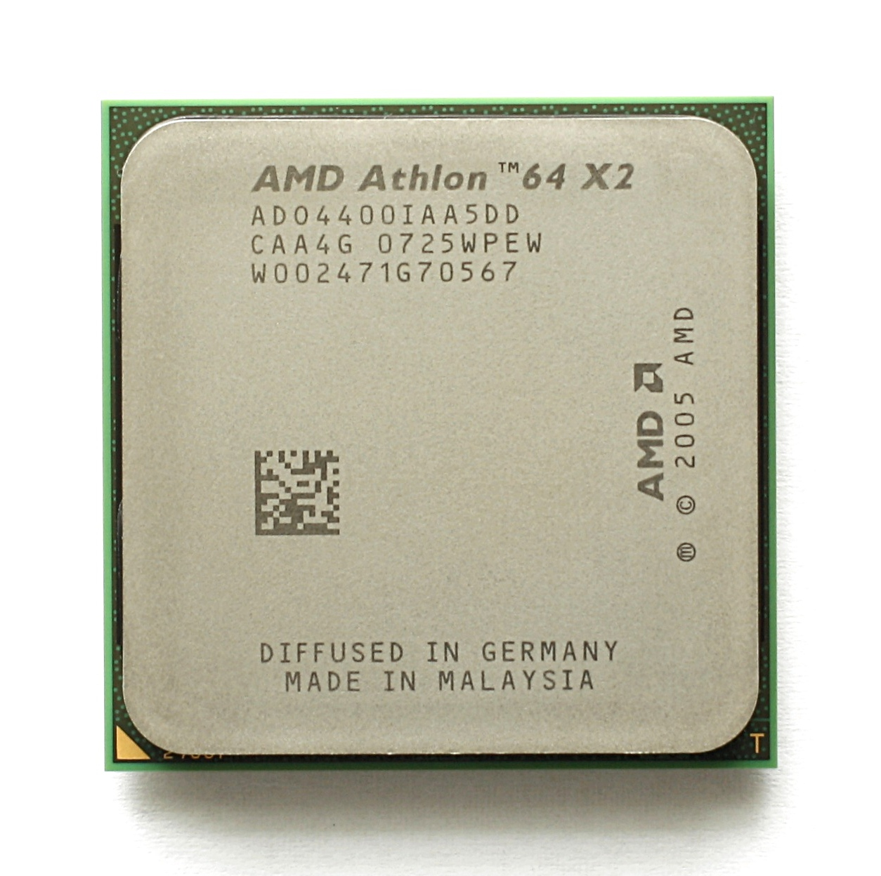 AMD CPU Athlon 64 X2 Brisbane Core (K8)